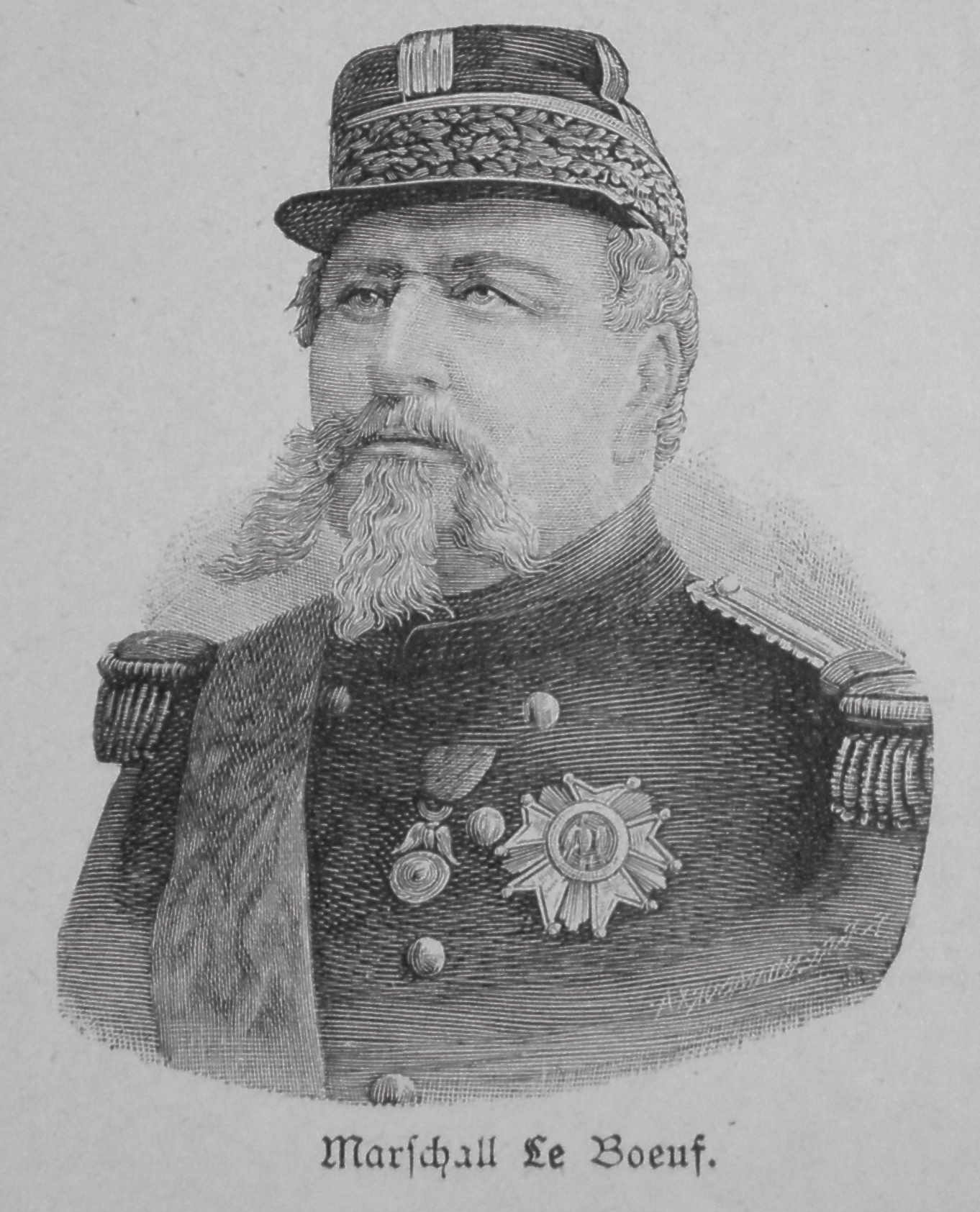 marshal Edmond Le Boeuf